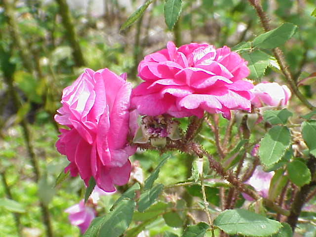 'Species: Rosa 'Marèchal Davoust Family: Rosaceae Cultivar: 'Marèchal Davoust' Image No. 15